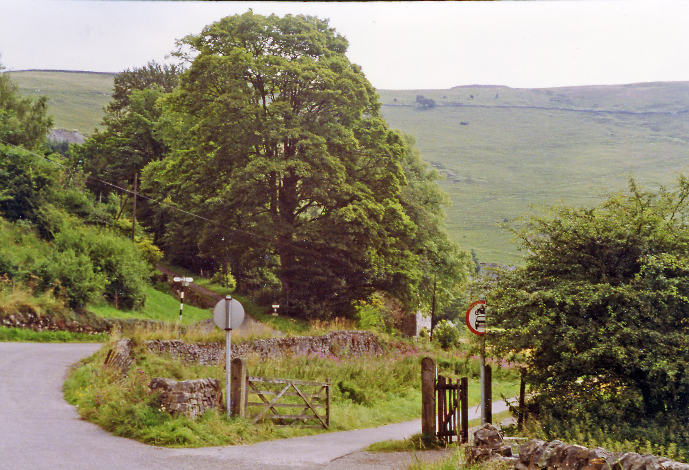 Site of Ecton station, Manifold Valley, 1993. View SE, towards Waterhouses: ex-North Stafford Railway, Manifold Light Railway, Waterhouses - Hulme End, which had a short life of 30 years and closed 12/3/34